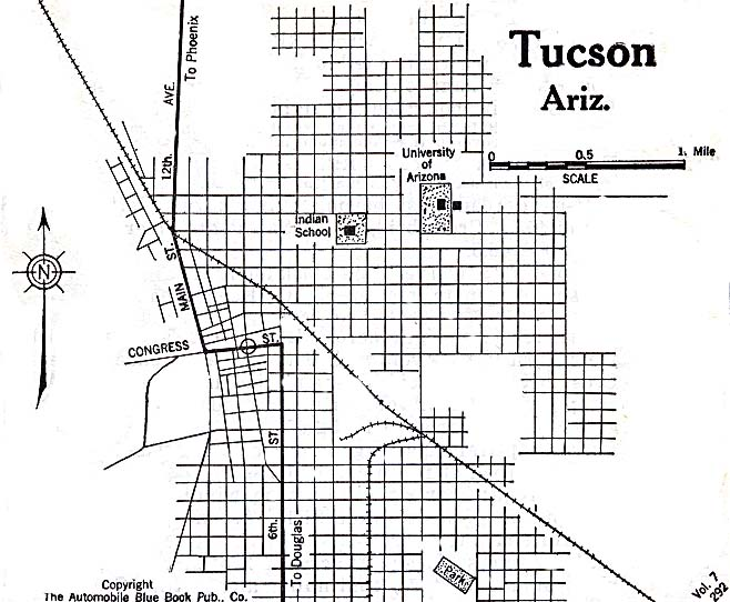 Map of Tucson, AZ, USA